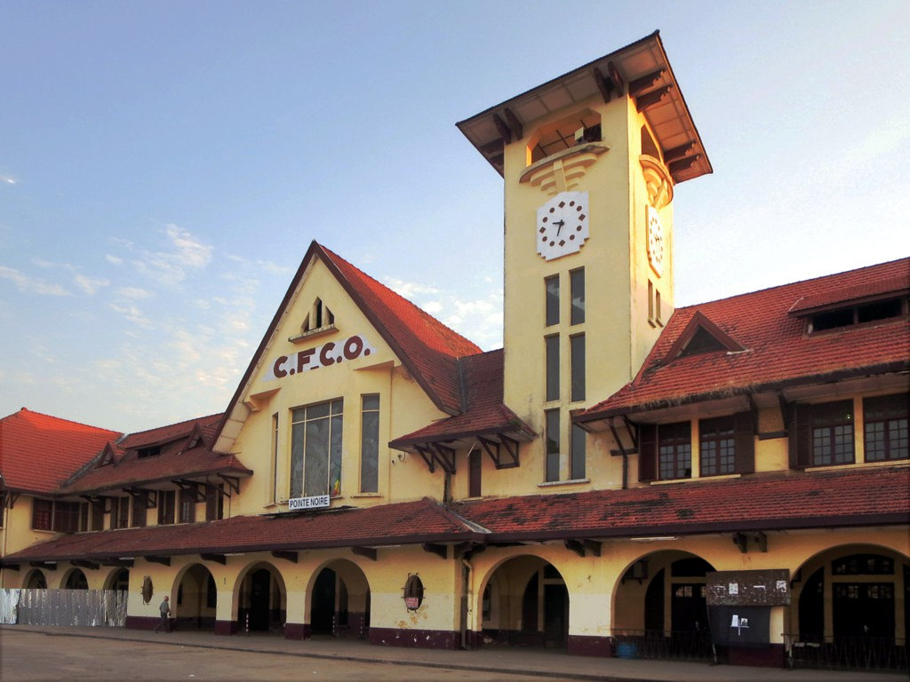 The Gare de Pointe-Noire is the western terminus of the 510-kilometer Chemin de fer Congo-Océan (CFCO) from Brazzaville, capital of the Republic of Congo.